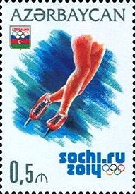 XXII Olympic Winter Games. Sochi - 2014. N 1133 - 50 qapik. Skating